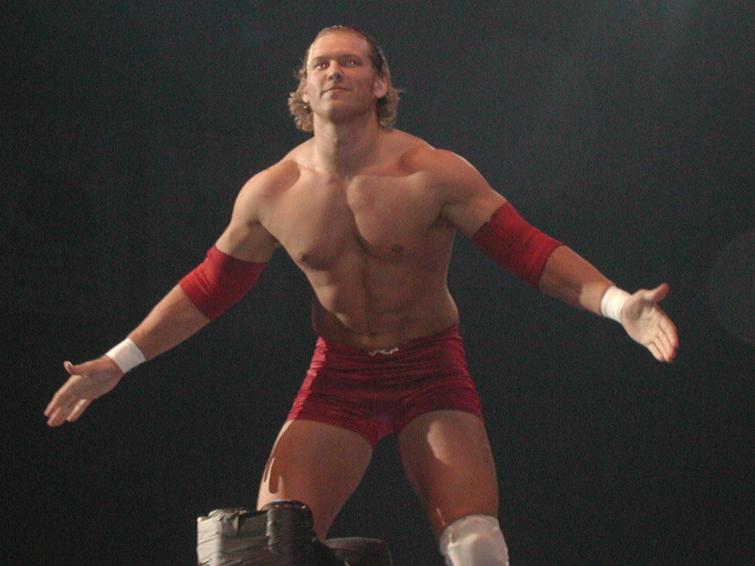 Chris Harvard at a WWE Raw live event. Allstate Arena, Rosemont, September 1 2002.